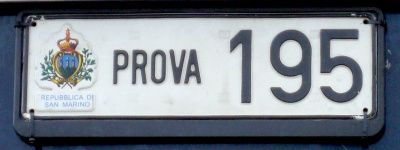 San Marino one line test plate for dealers, made of metal or cardboard. Small letters and numbers are in black instead of blue.